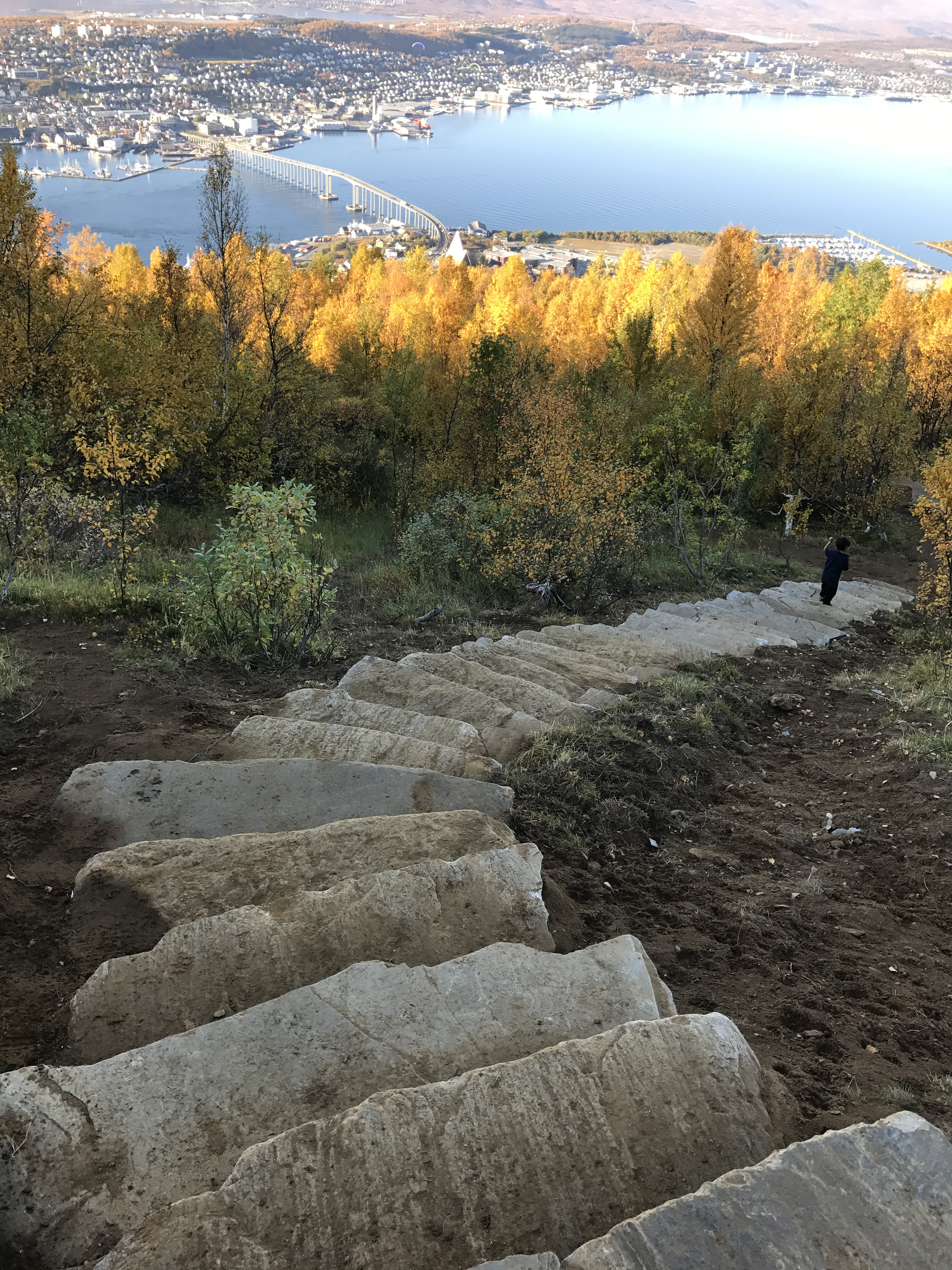 Store stairs on the mountain Aksla in in Tromsø, Norway. The Arctic Cathedral and the Tromsø Bridge to the island Tromsøya can be seen in the background